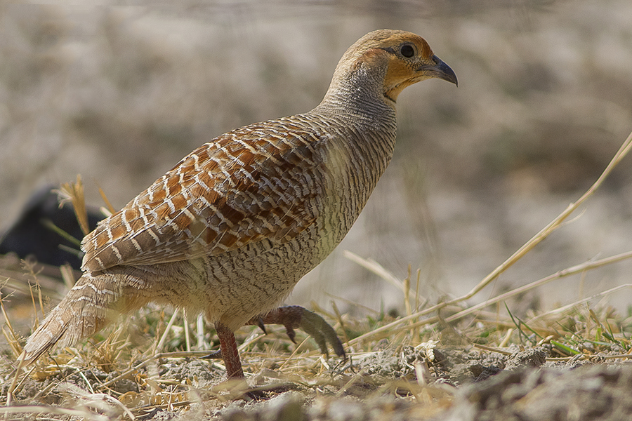 The species Grey Francolin has been photographed at Tal Chappar, Churu, Rajasthan, India on 14th February 2013 during the bird photography tour.